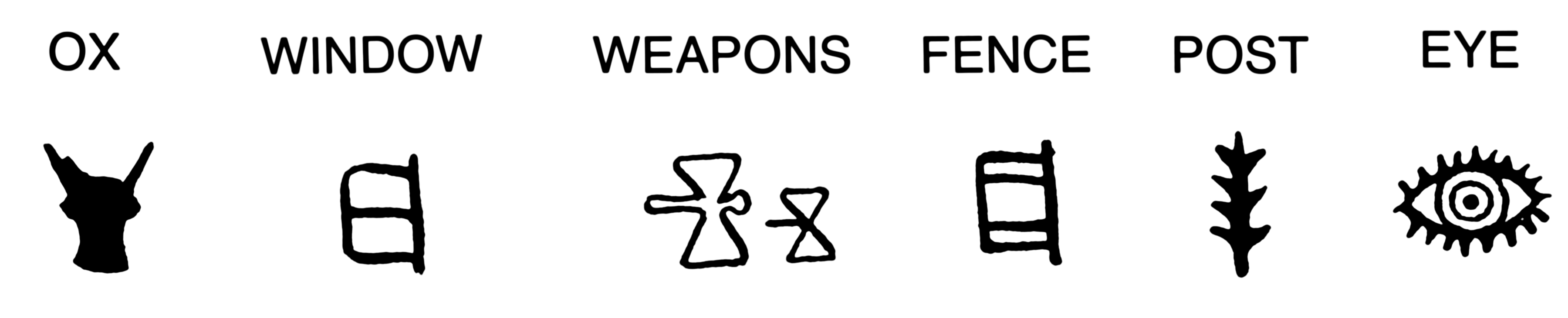 Line art drawing of pictograph.